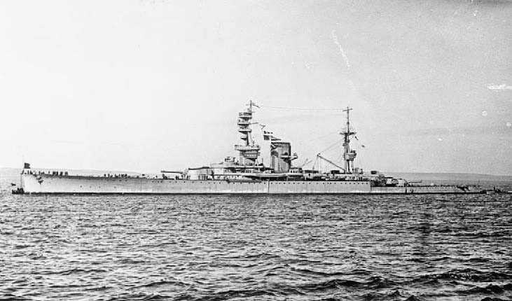 HMS COURAGEOUS shortly after completion, in her original configuration as a large cruiser. Cropped for English Wikipedia main page